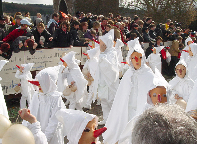 Procession of the Blancs-Moussis in the Carnaval de la Laetare. Photograph taken by David Edgar on 26th March 2006.